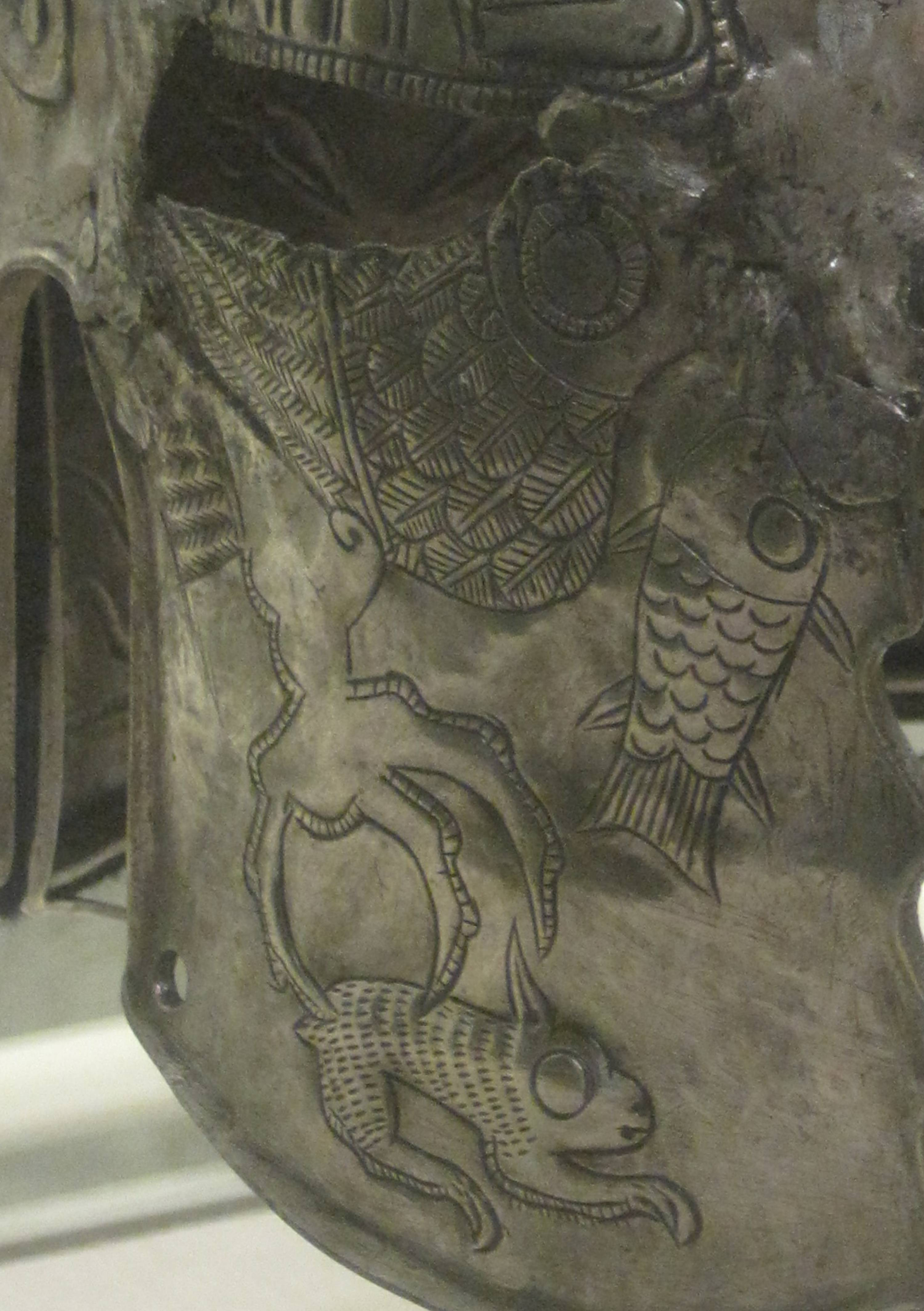 A Geto-Dacian helmet dating from the 4th century BC.